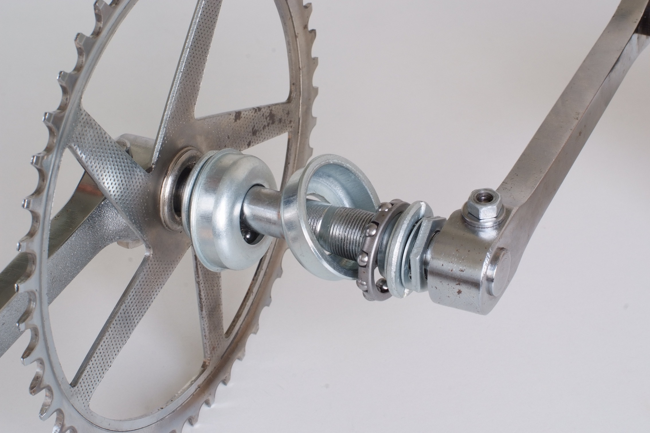 Thompson bottom bracket with crankset